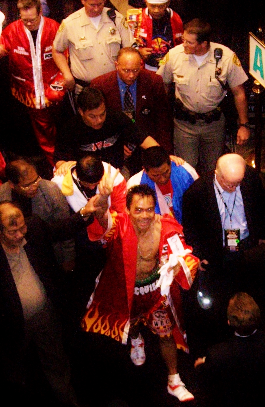 Manny Pacquiao leaving the ring with the V sign after the first fight against Érik Morales.